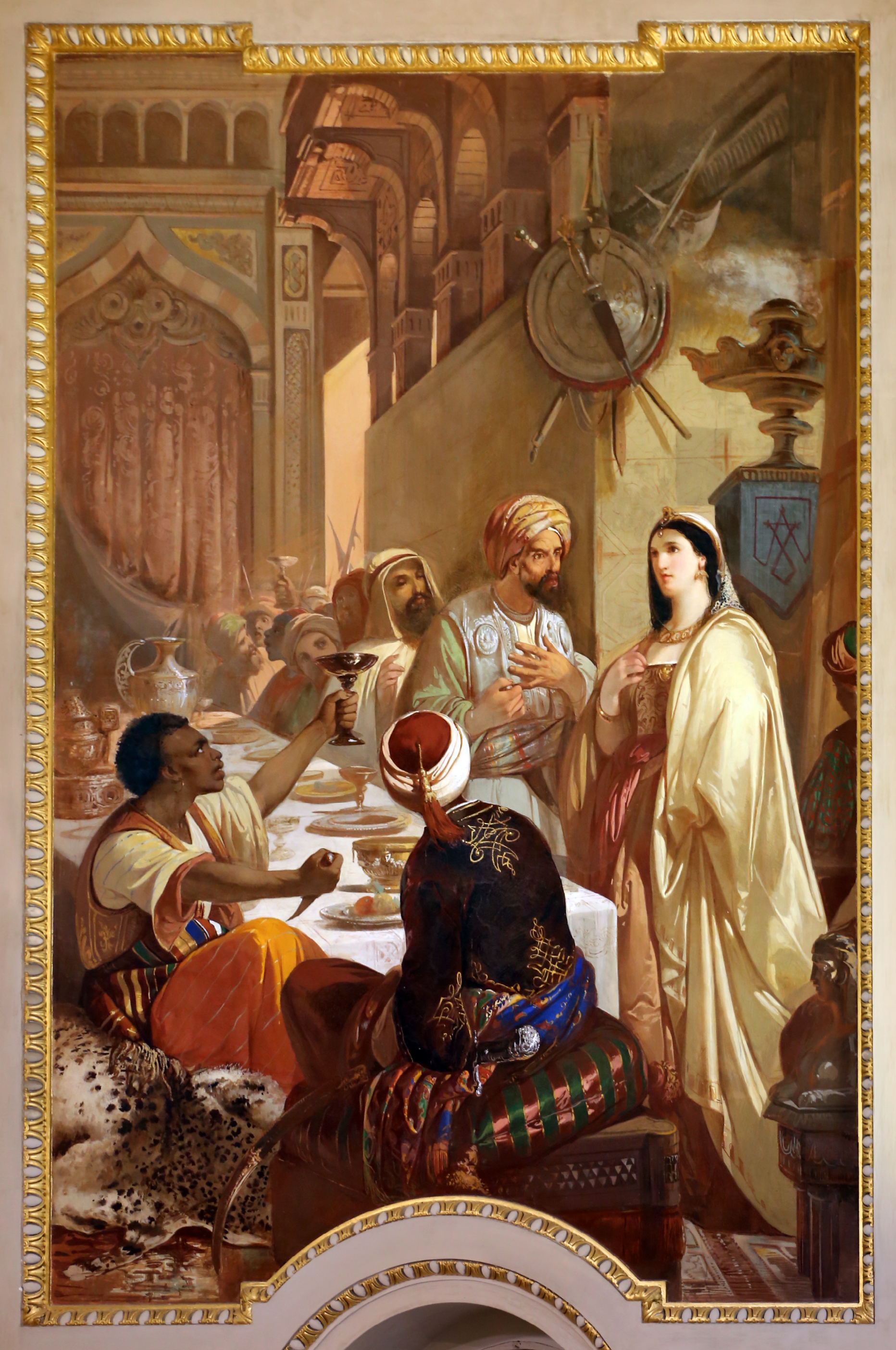 Villa Favard - Tasso Room